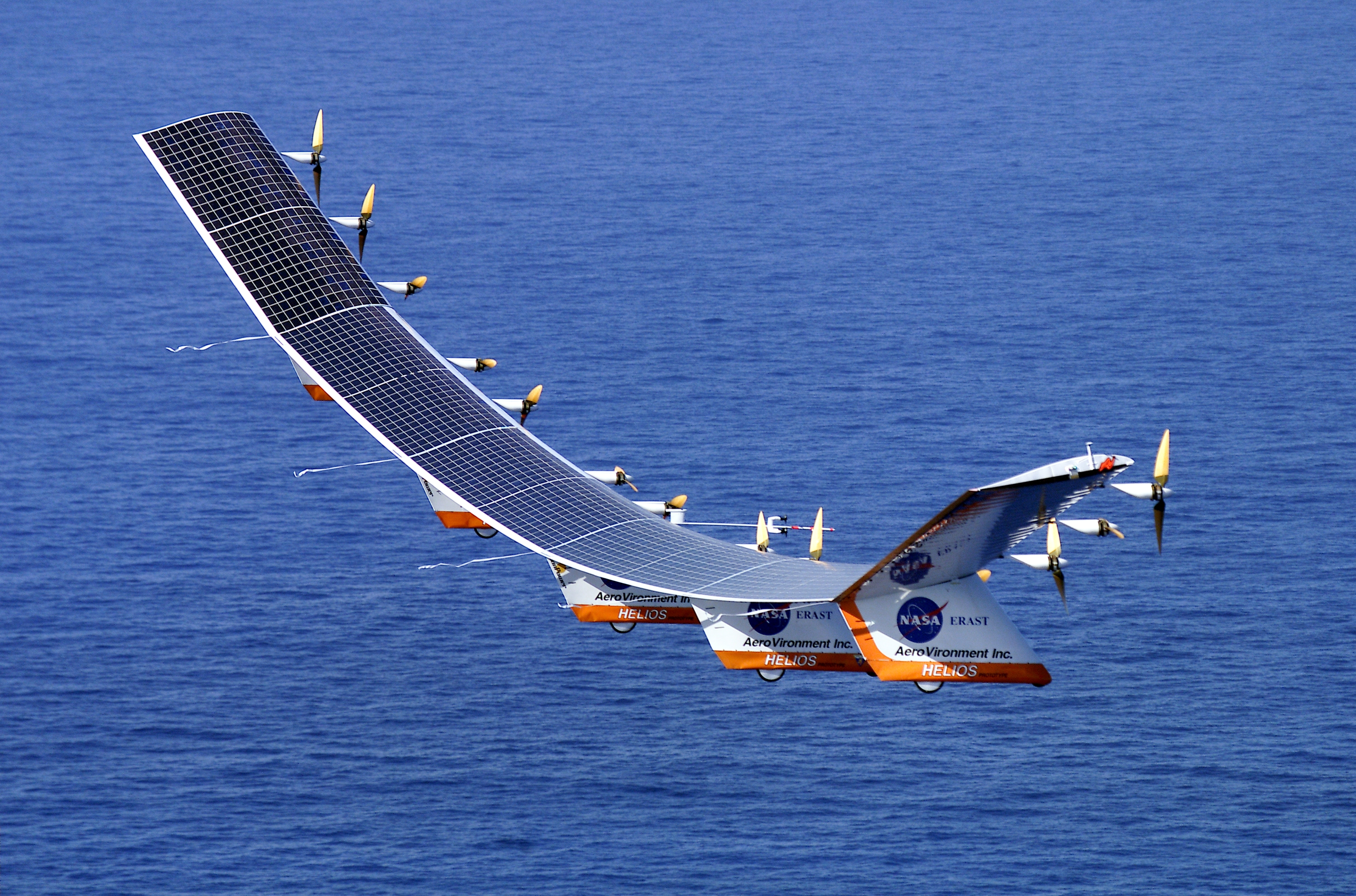 The solar-electric Helios Prototype flying wing is shown over the Pacific Ocean during its first test flight on solar power from the U.S. Navy's Pacific Missile Range Facility on Kauai, Hawaii, July 14, 2001. The 18-hour flight was a functional checkout of the aircraft's systems and performance in preparation for an attempt to reach sustained flight at 100,000 feet altitude later this summer.